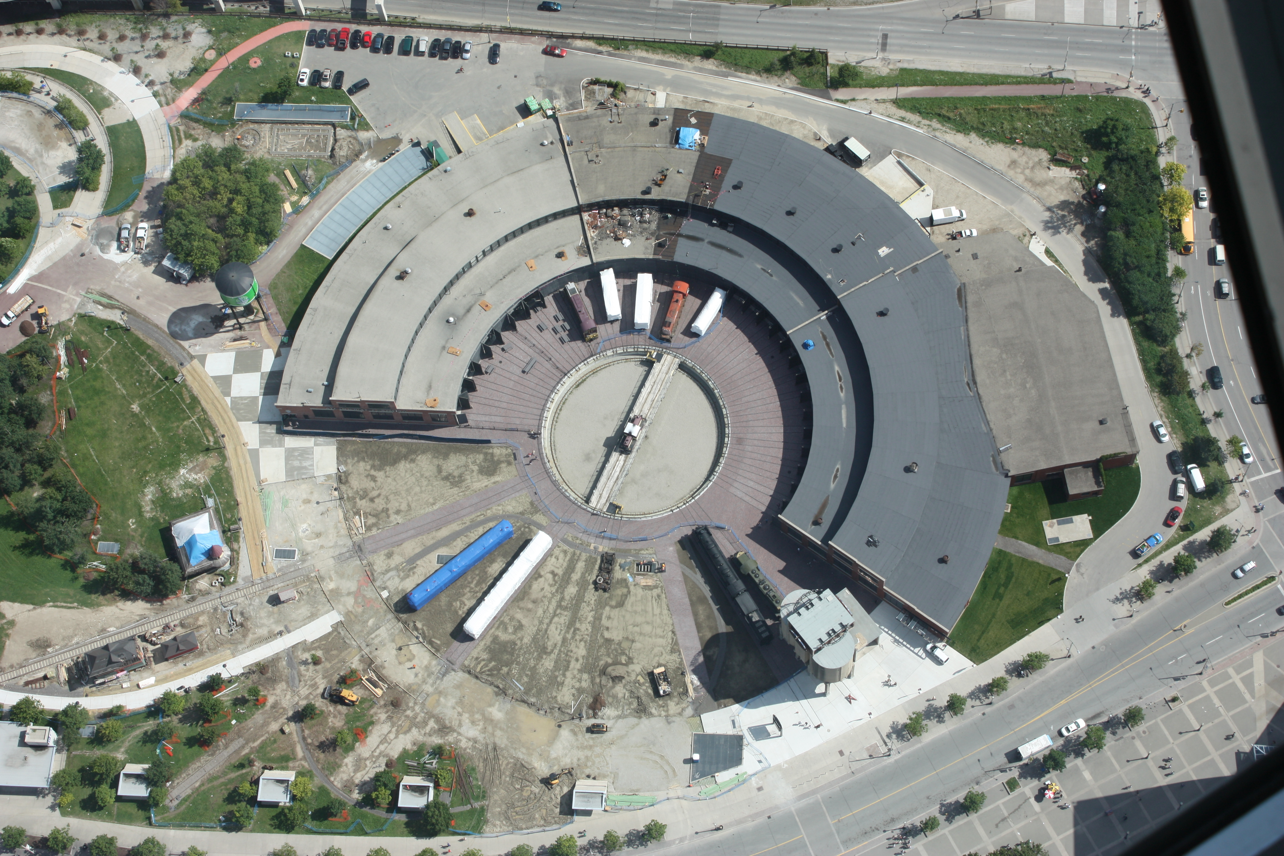 John Street Roundhouse viewed from the CN Tower